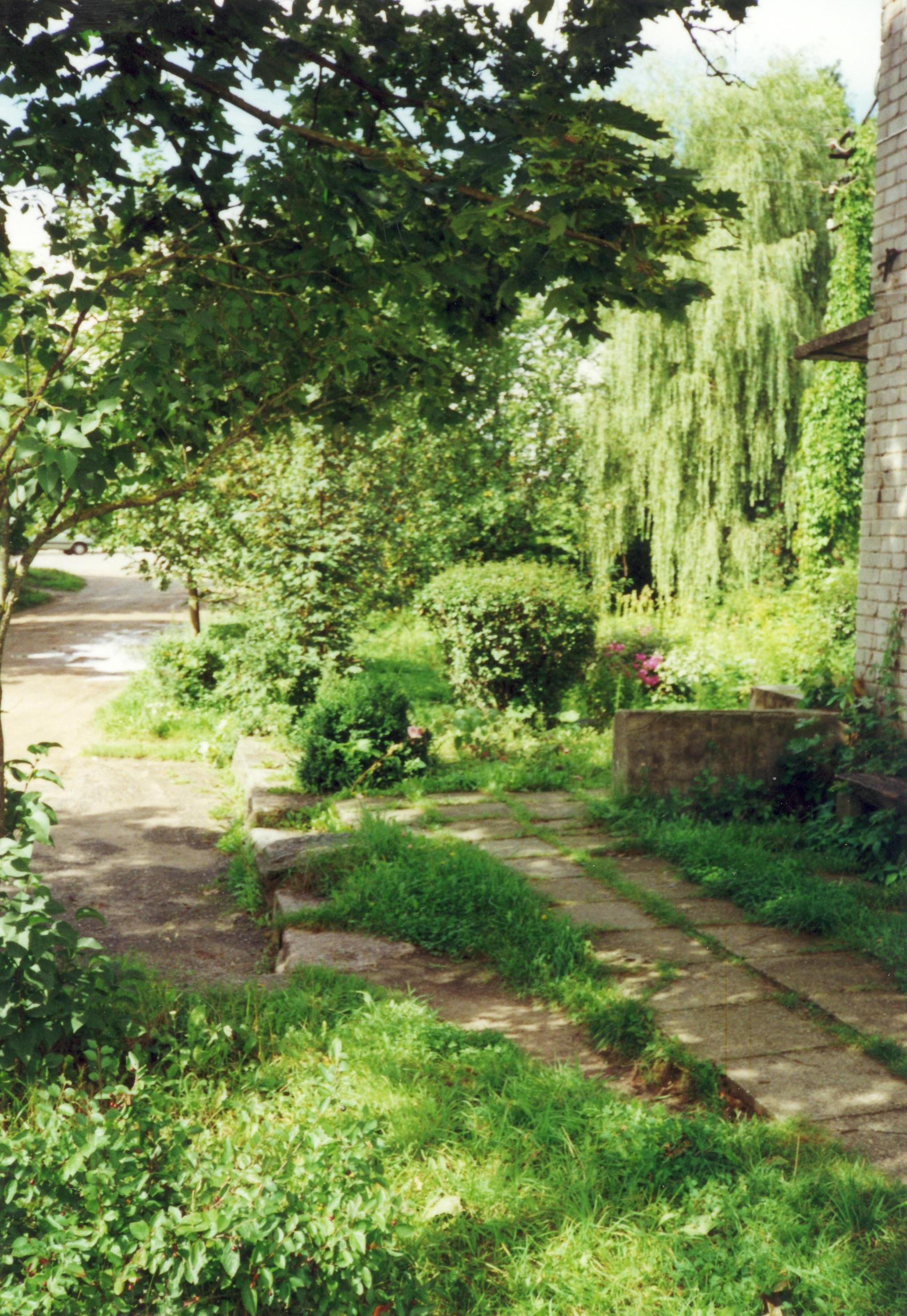 Jonava M/U gyvenvietė, pradžia; tolumoje - įvažiavimo kelias į gyvenvietę.